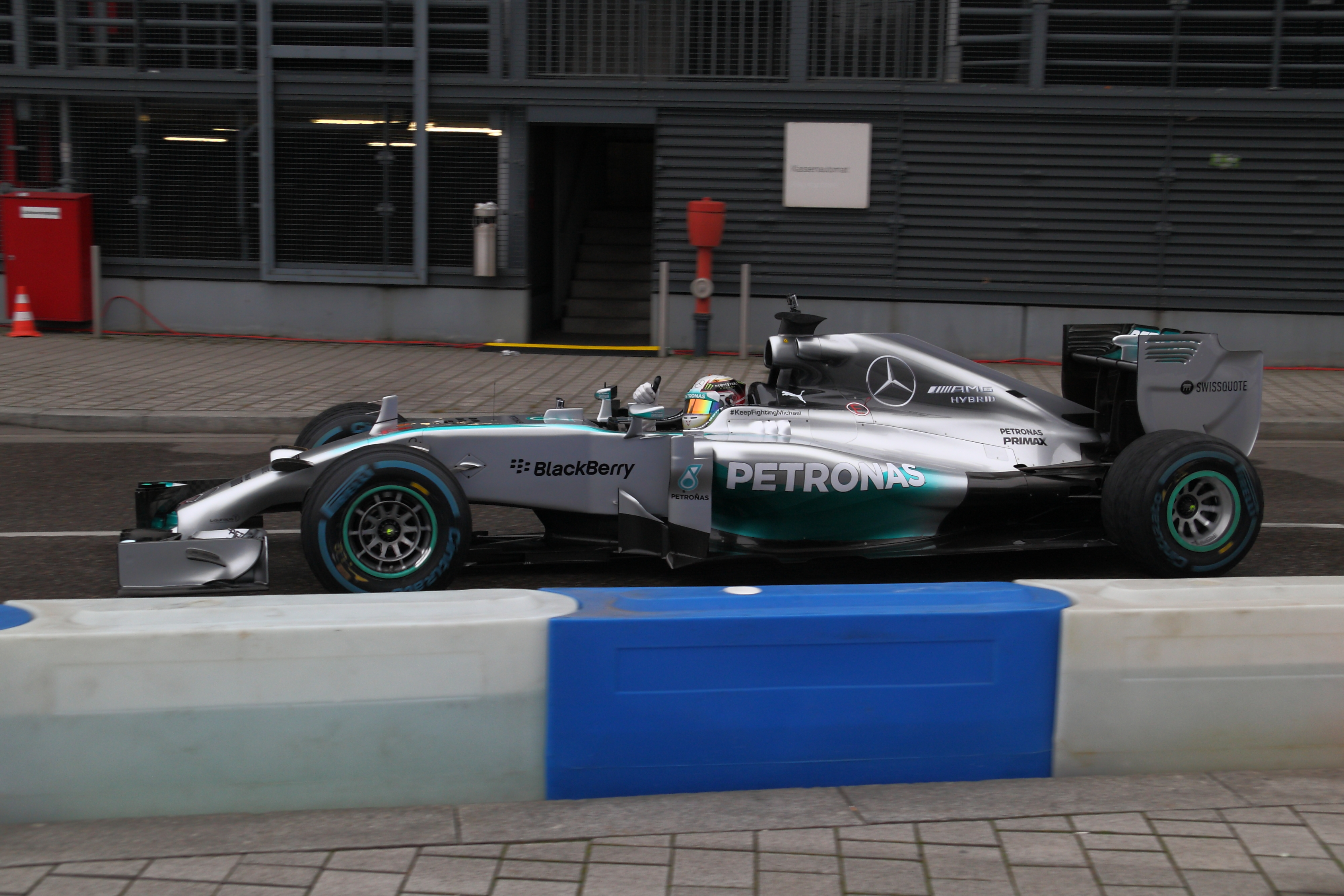 Lewis Hamilton at Stars and Cars 2014